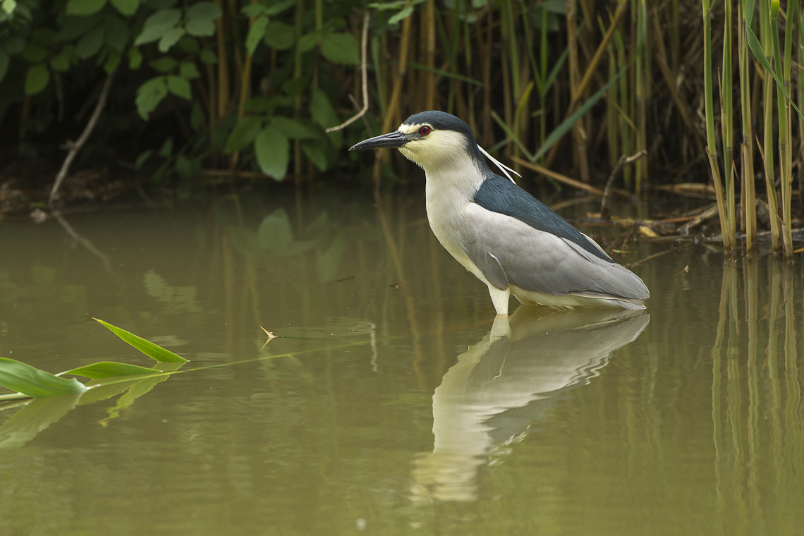 Black-crowned Night Heron Nycticorax nycticorax nycticorax, Hortobagy, Hungary_S4E5316